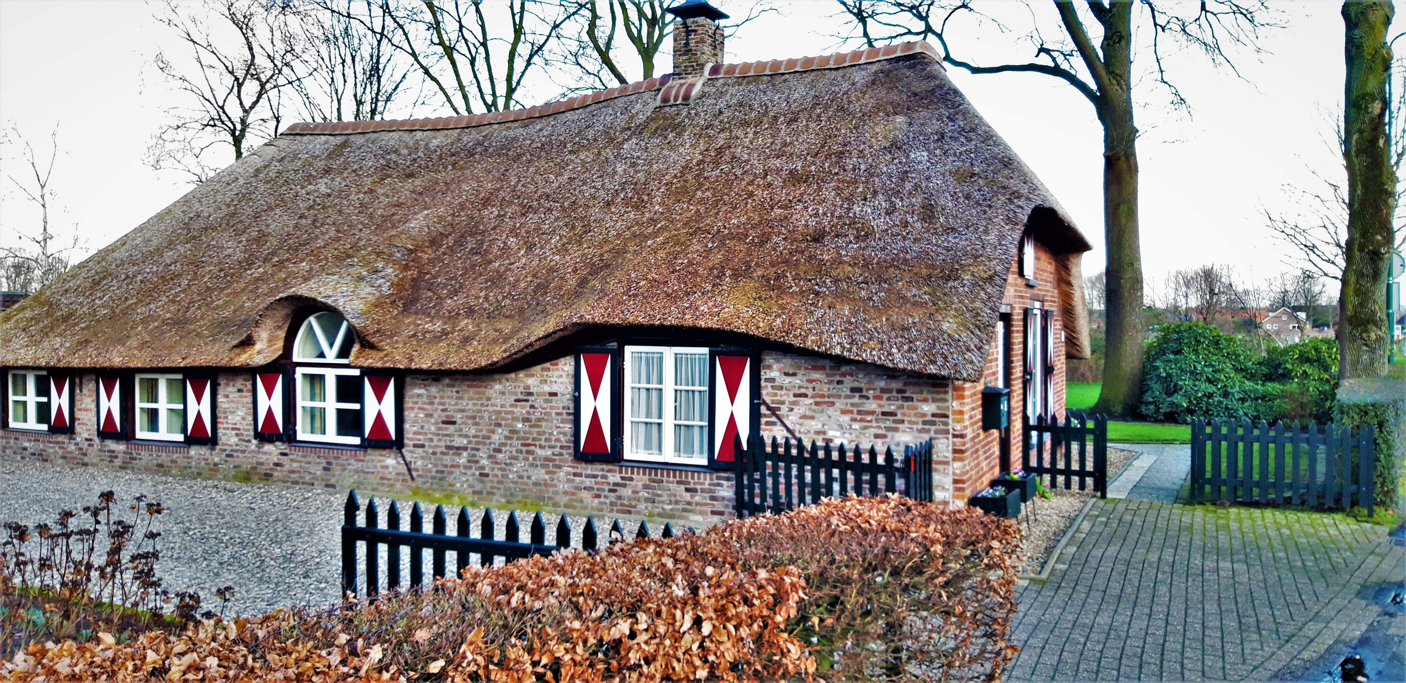 A Dutch Farmhouse in the Netherlands. There are many authentic farms in the Dutch village of Kaatsheuvel. A thatched roof is a typical style for a Dutch farmhouse.